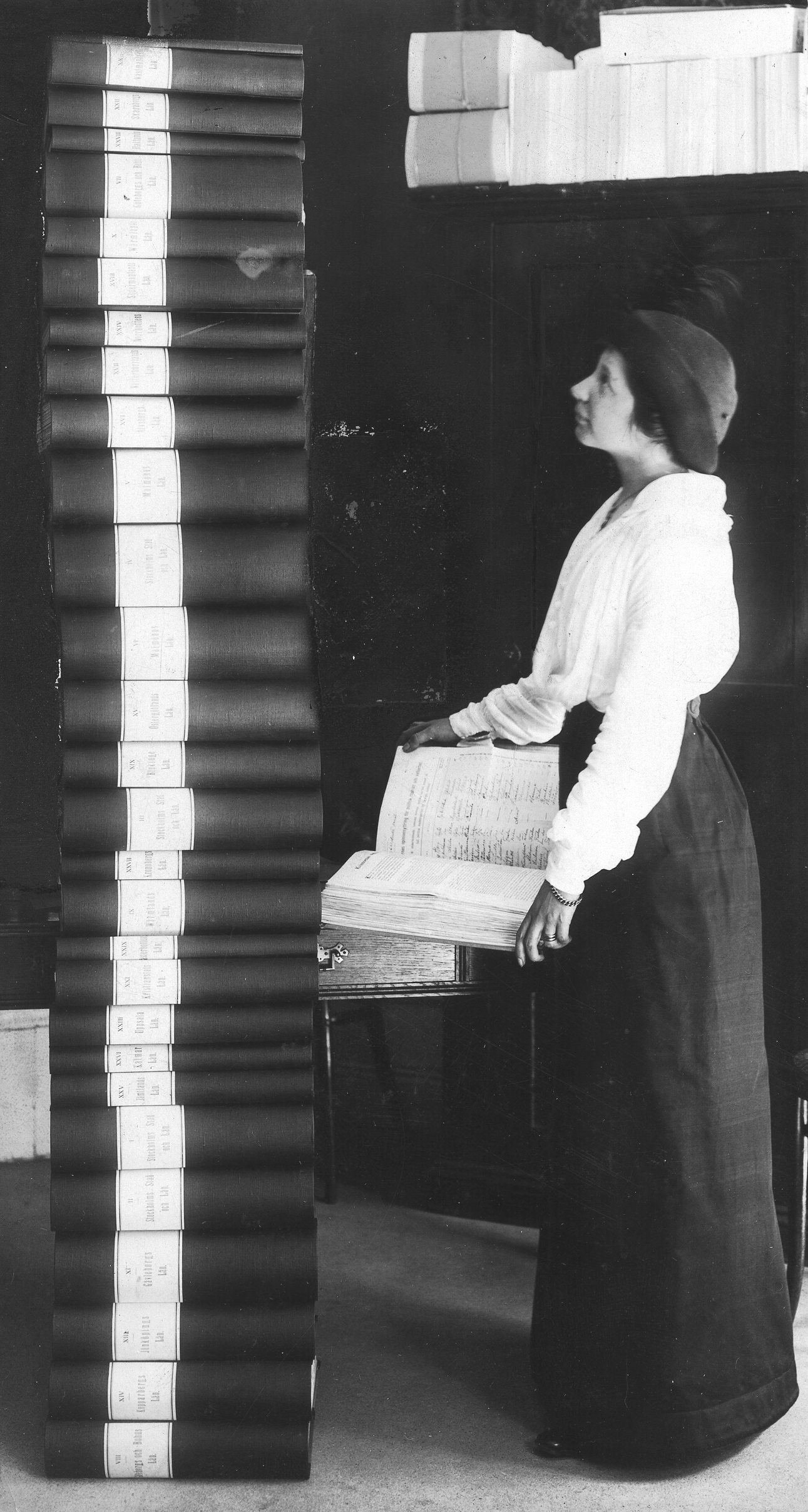 Elin Wägner in front of the 351,454 signatures collected to support women's right to vote